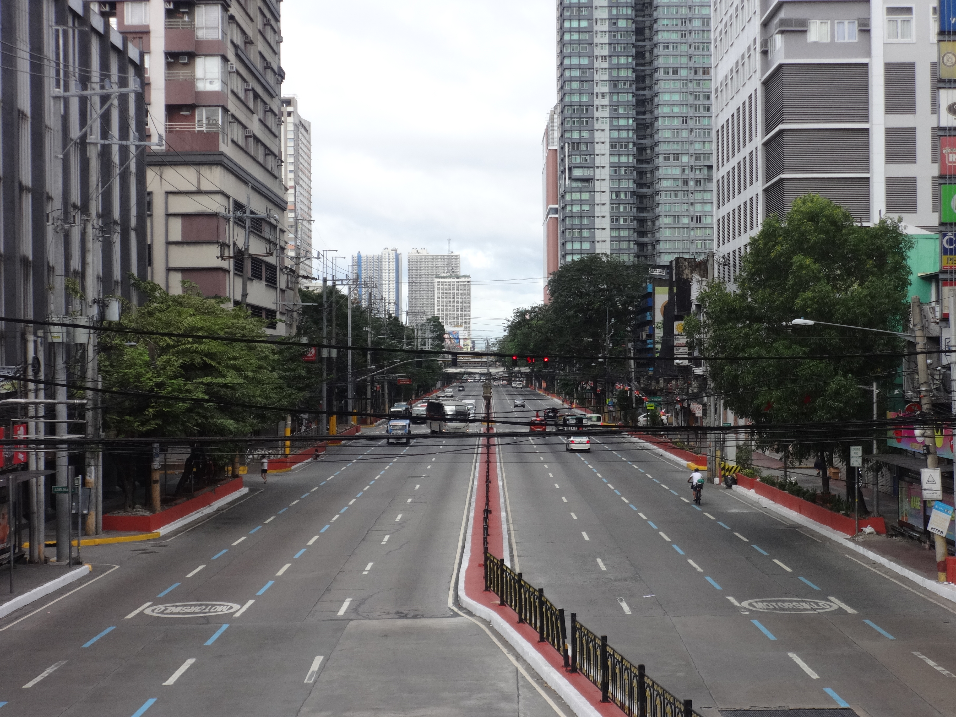 España Boulevard in Sampaloc, Manila